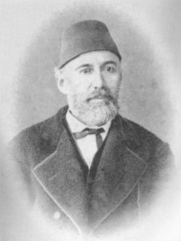 Stefanos Tatis